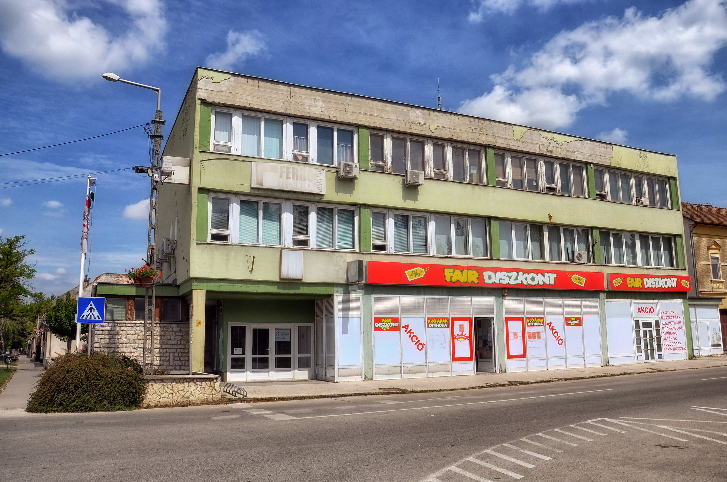 The then headquarters of Hungarian Socialist Workers' Party's affiliate in Bicske